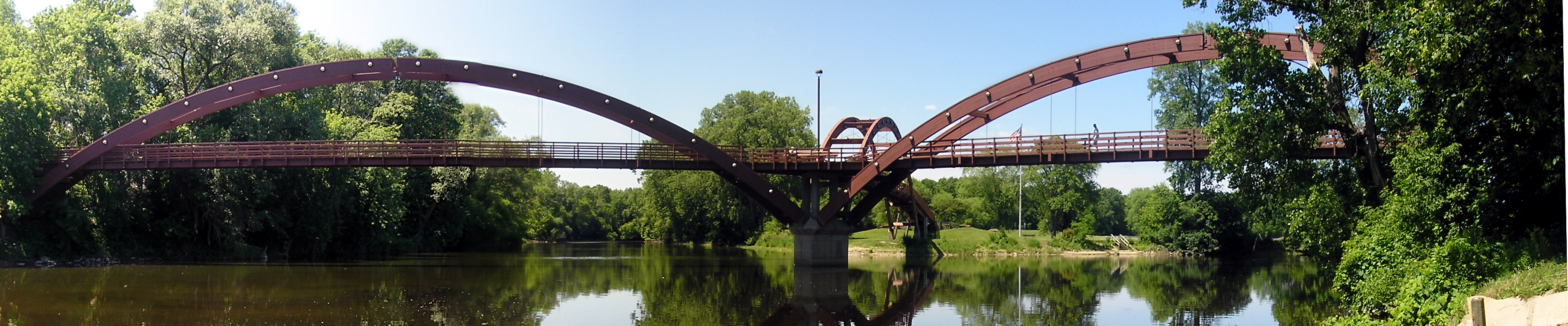 The Tridge, a 3-way bridge crossing the meeting of Chippewa and Titabawassee Rivers in downtown Midland, Michigan.